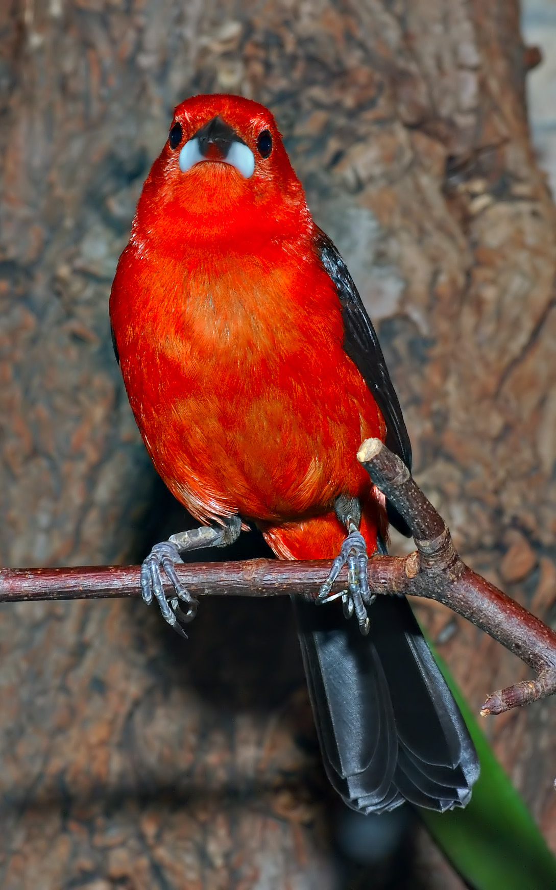 This image shows a Brazilian Tanager (Ramphocelus bresilius).